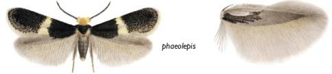 Ectoedemia phaeolepis male and male hindwing